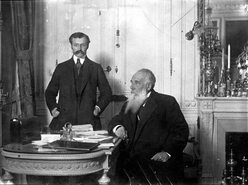 Jovan Jovanović Pižon and Nikola Pašić during WWI